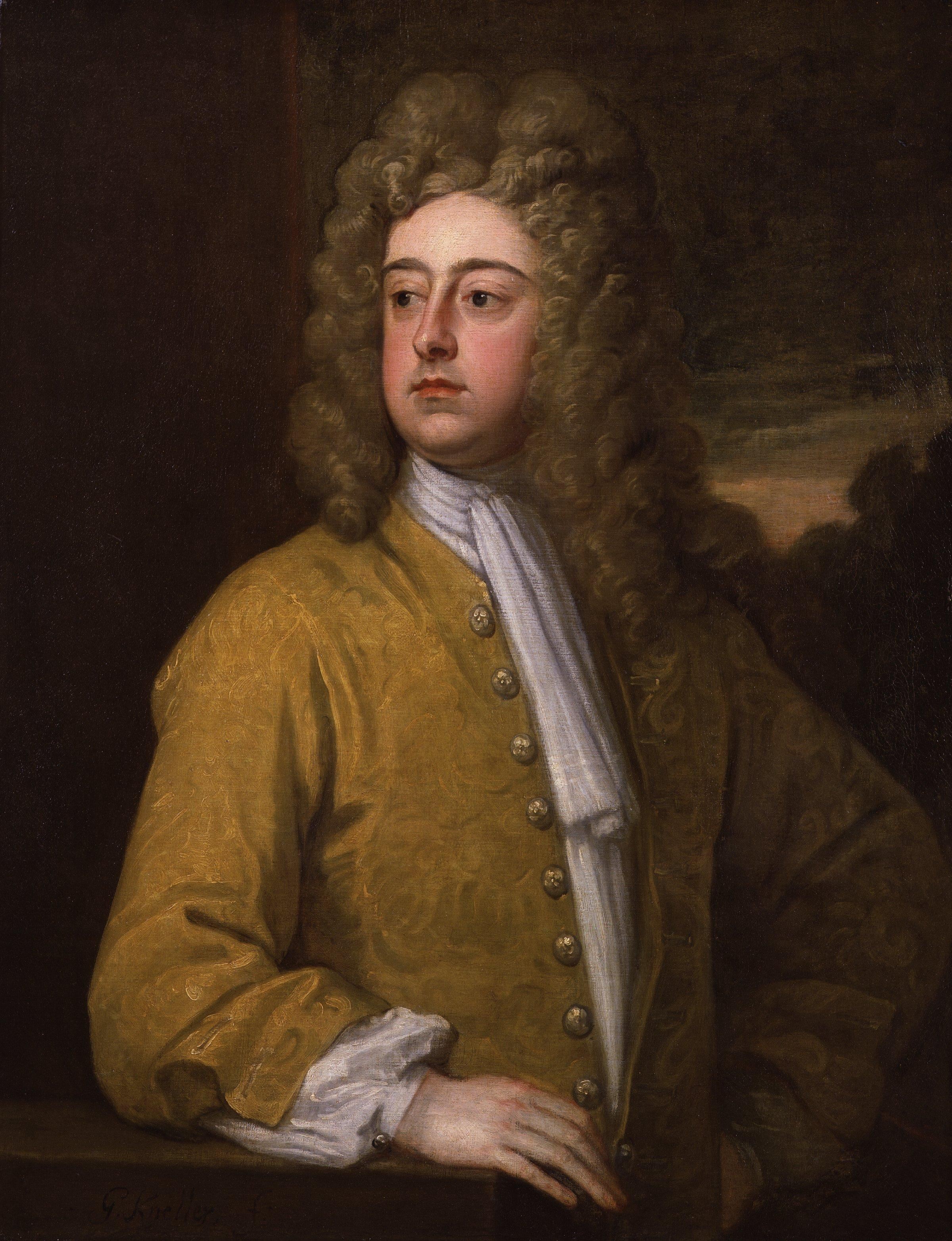 Francis Godolphin, 2nd Earl of Godolphin, by Sir Godfrey Kneller, Bt (died 1723), given to the National Portrait Gallery, London in 1945. All images in this batch have been confirmed as author died before 1939 according to the official death date listed by the NPG.